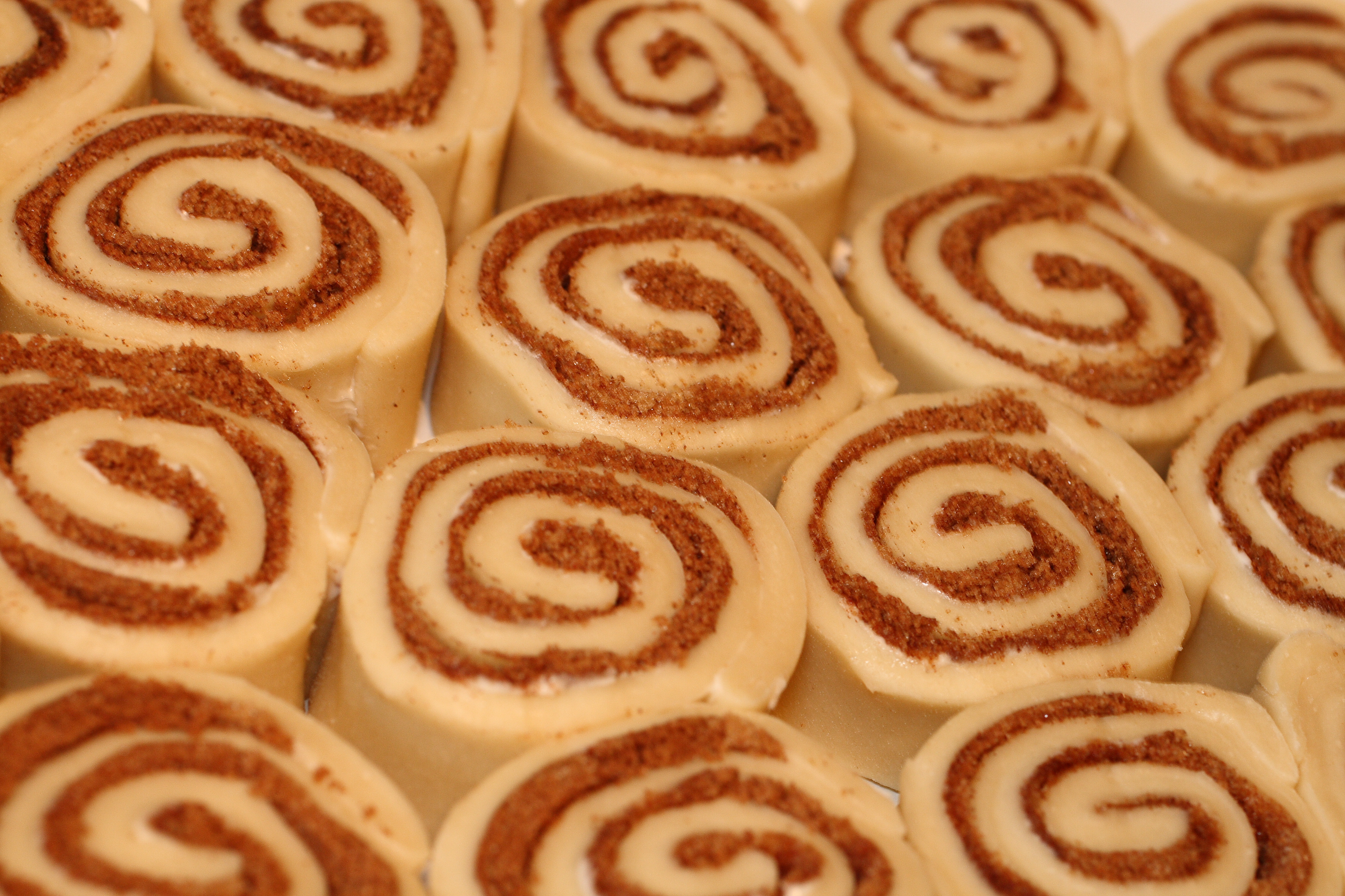 Uncooked cinnamon roll buns.